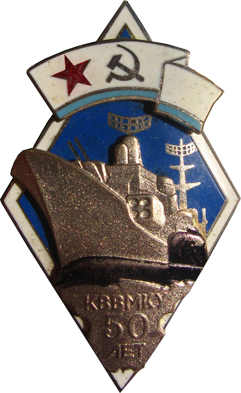 Insignia dedicated to the 50th anniversary of the KVVMKU (Caspian Higher Naval School, Baku) foundation.